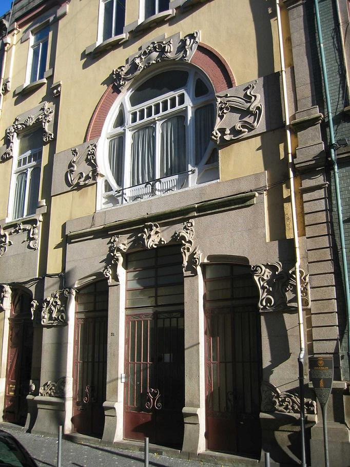 Art Nouveau house - Oporto - Portugal